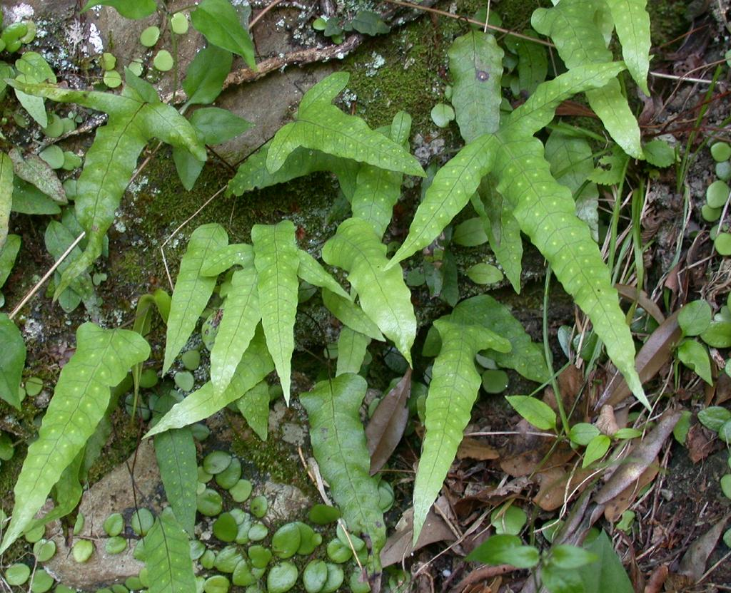 Selliguea hastatus (syn. Crypsinus hastatus); Polypodiaceae Japanese name: Mitudeurabosi Date;2007,05,31.Susami town,Wakayama Pref. Japan Author: Keisotyo